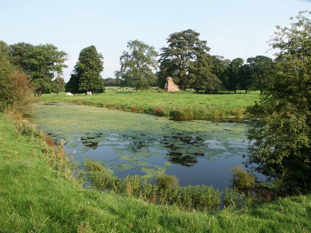 Old Madeley Manor Looking across the old fish ponds towards the scant remains of Old Madeley Manor. Old Madeley Manor and manorial fishpond, Staffordshire. A fortified manor house formerly a residence of Ralph de Stafford, 1st Earl of Stafford (1301-1372), of Stafford Castle